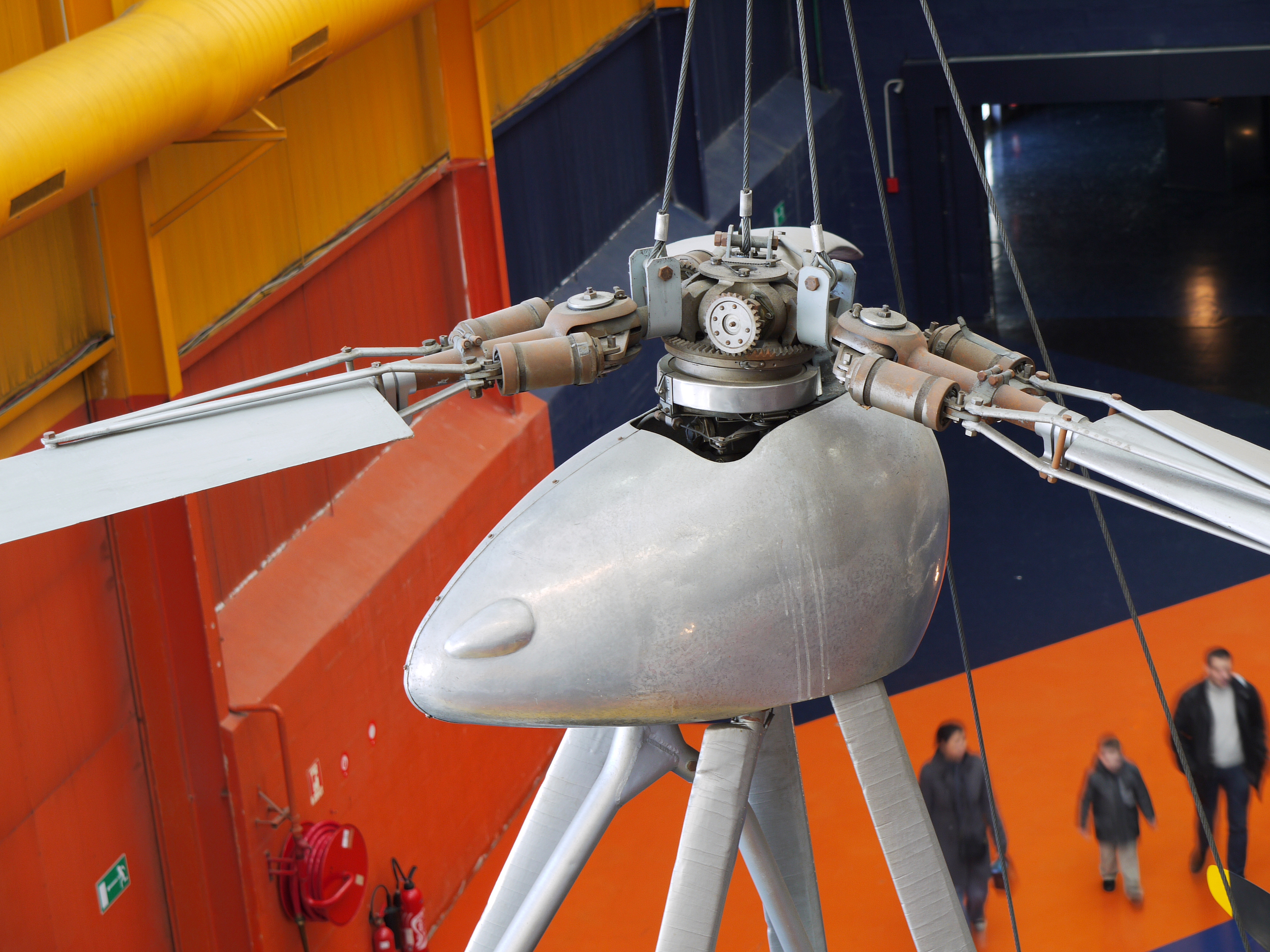 Lioré et Olivier C 302 autogiro (licence-built Cierva C.30)(F-BDAD), rotor head closeup, French Air and Space Museum (Musée de l'Air et de l'Espace), Le Bourget (France)